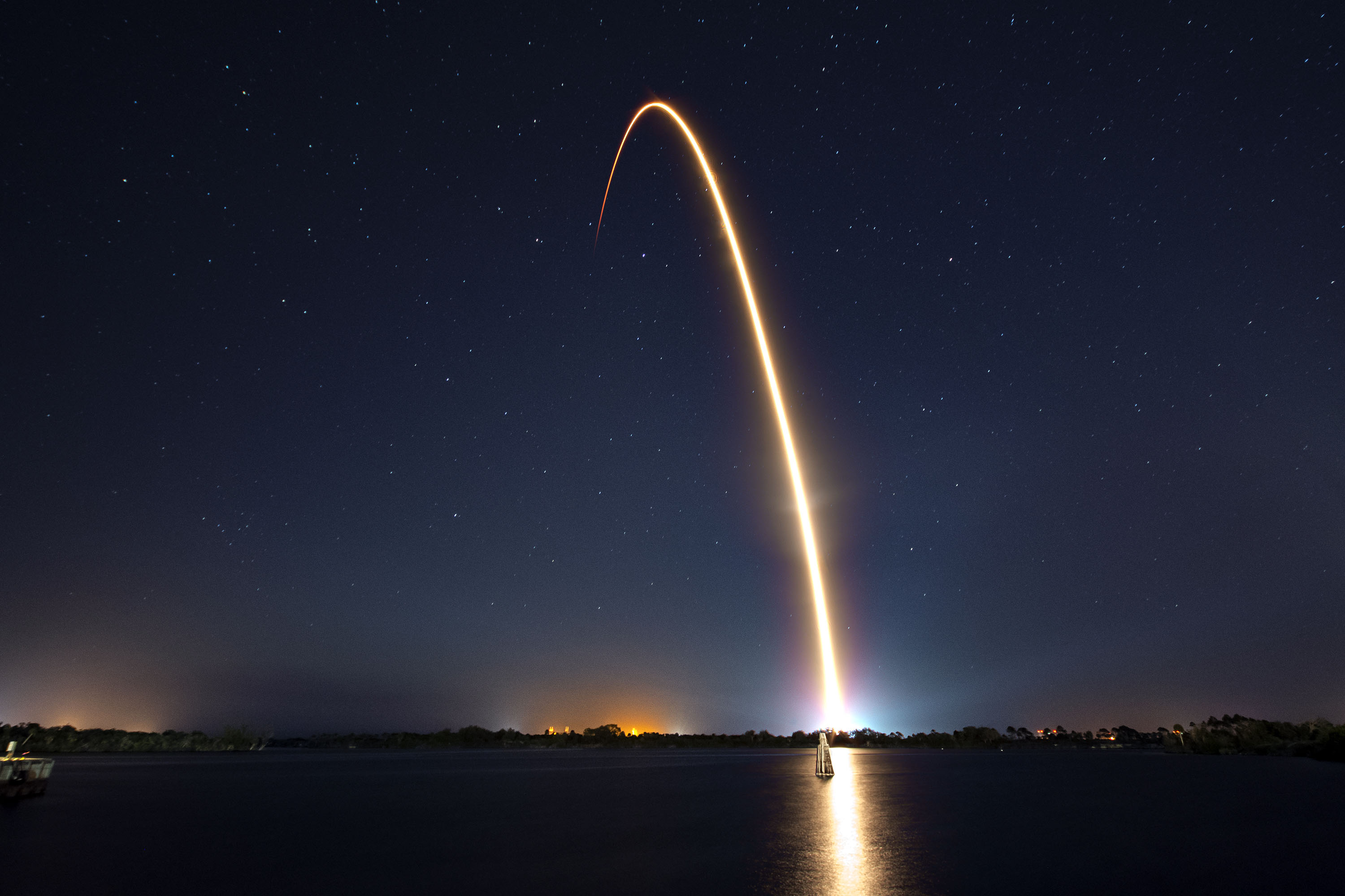 Lift off of the Falcon 9 with the geostationary satellite Nusantara Satu and the Beresheet lunar probe.